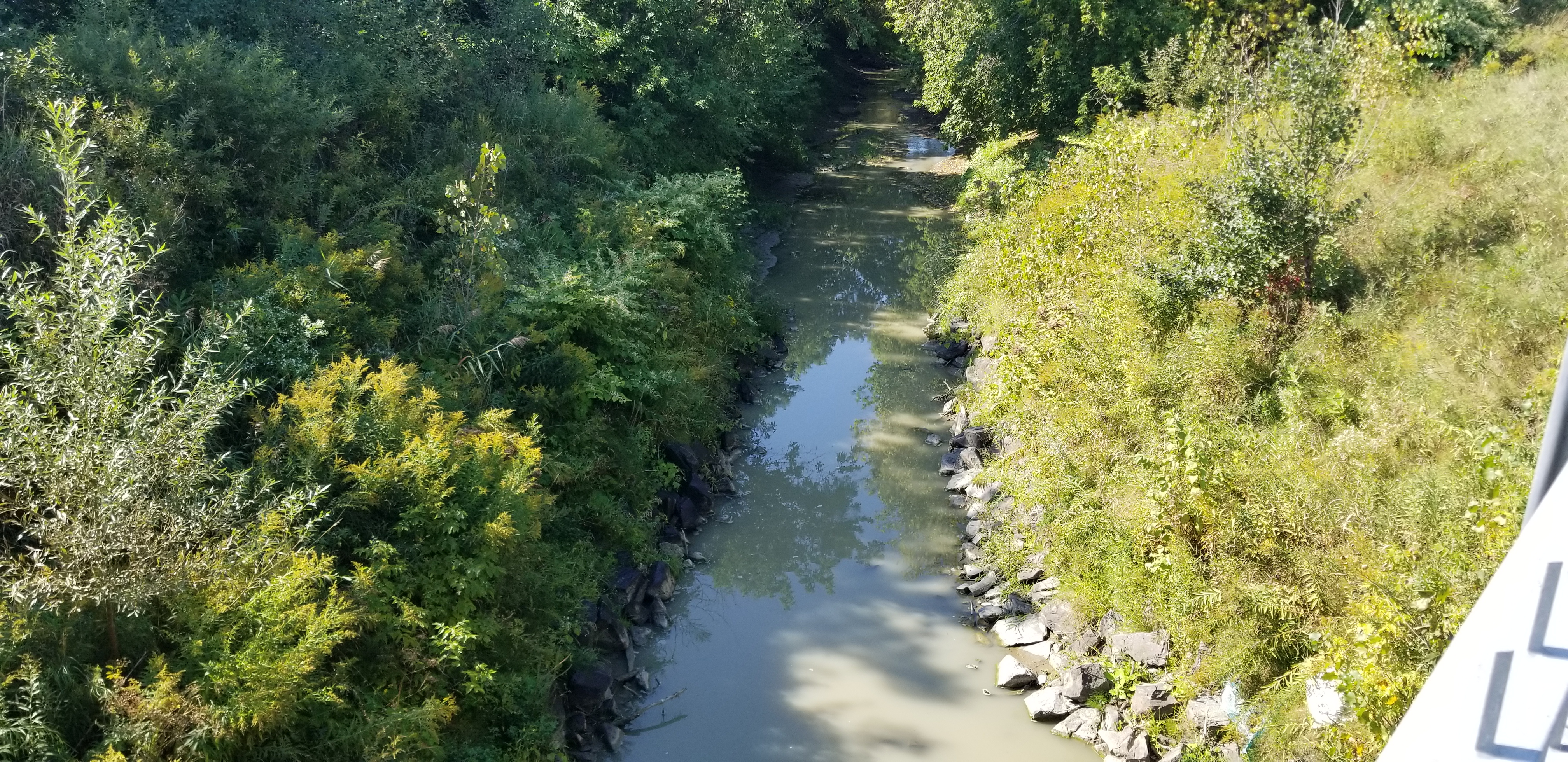 View of the lower Yamachiche River from the Highway 138 bridge.